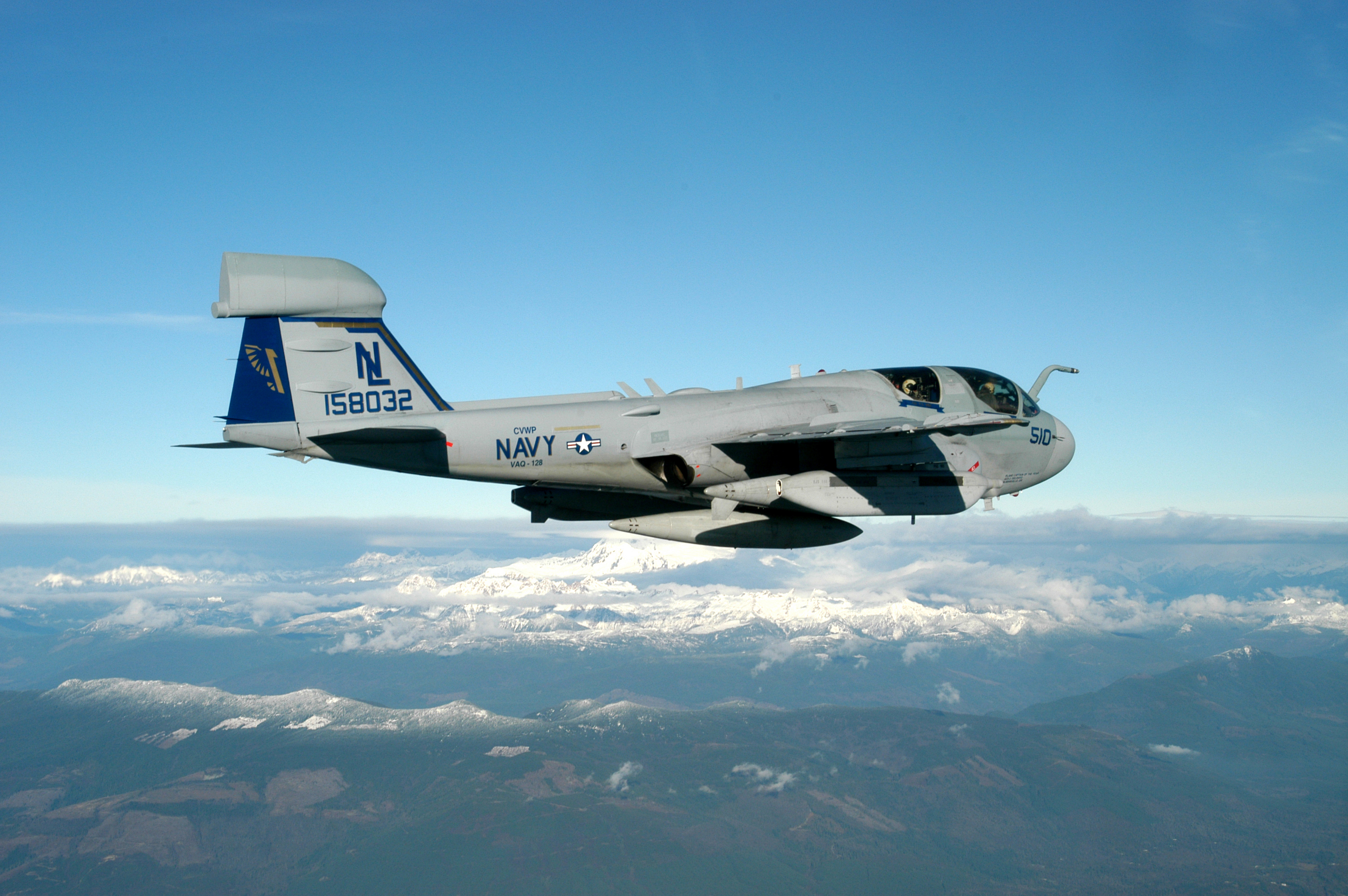 An EA-6B “Prowler” from Electronic Attack Squadron One Twenty Eight (VAQ-128) in flight near Mount Baker, on a routine training exercise.